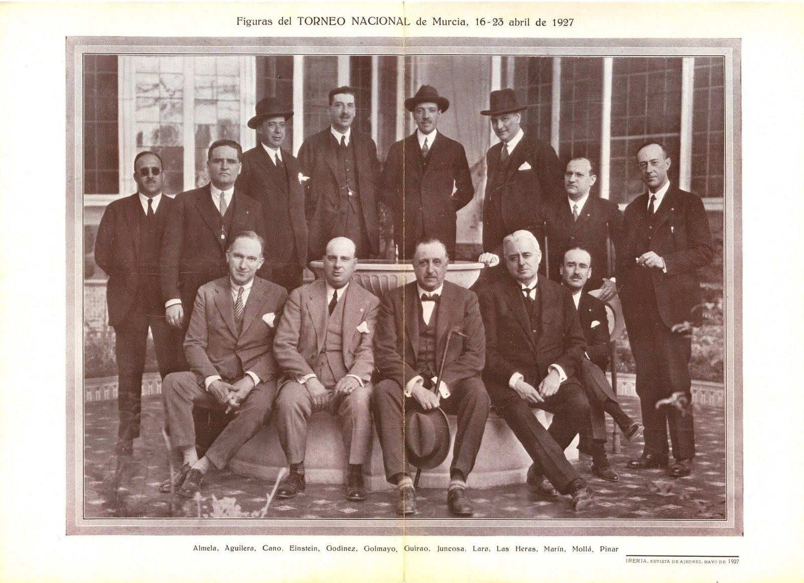 Chess Tournament Murcia 1927